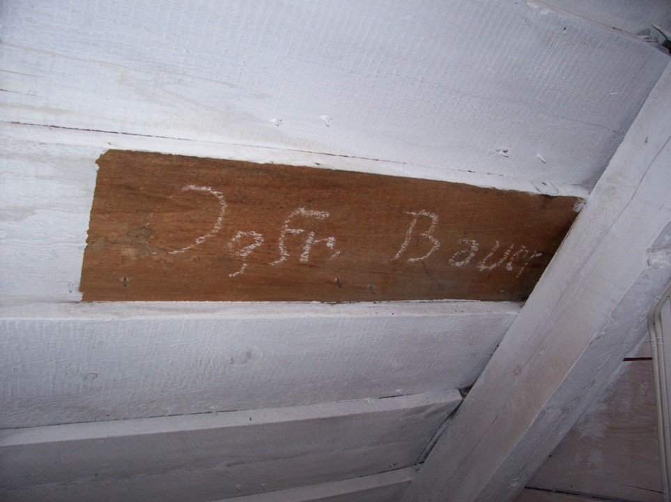 Navn skrevet av tysk soldat på loftet i Grønlid skule